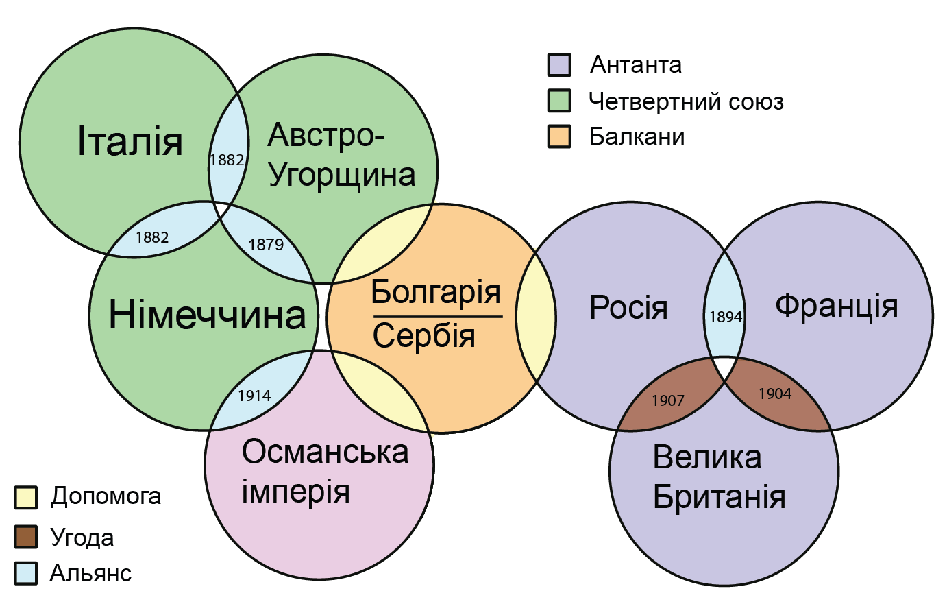 A diagrammatic illustration of European political alliances in the period leading up to the First World War, in Ukrainian